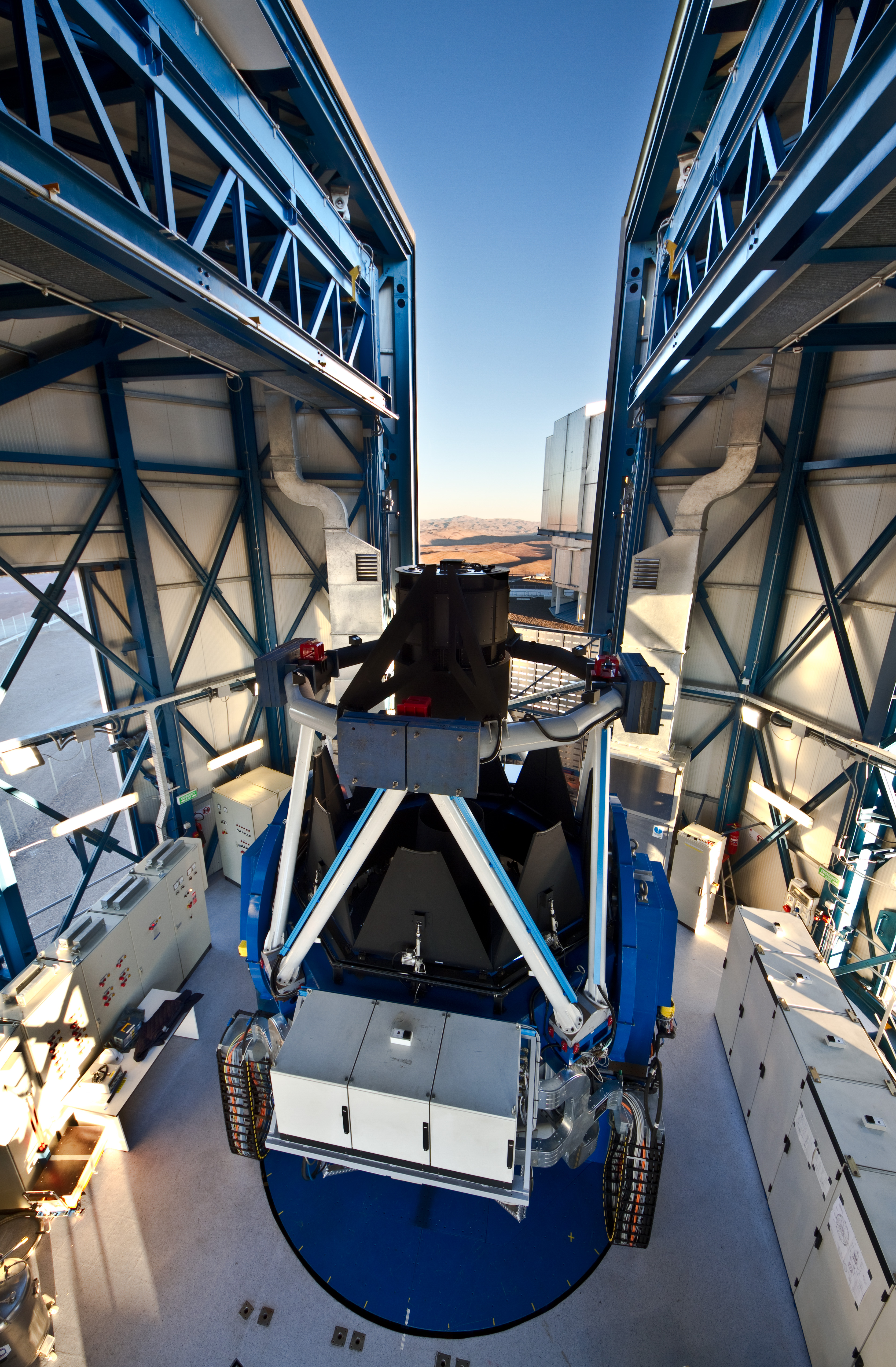 The VLT Survey Telescope (VST) is the latest telescope to be added to ESO’s Paranal Observatory in the Atacama Desert of northern Chile. It is housed in an enclosure immediately adjacent to the four VLT Unit Telescopes on the summit of Cerro Paranal. The VST is a 2.6-metre wide-field survey telescope with a field of view twice as broad as the full Moon. It is the largest telescope in the world dedicated to sky surveys in visible light. The VST was designed and built by the INAF–Osservatorio Astronomico di Capodimonte, Naples, Italy as part of a joint venture between INAF and ESO.